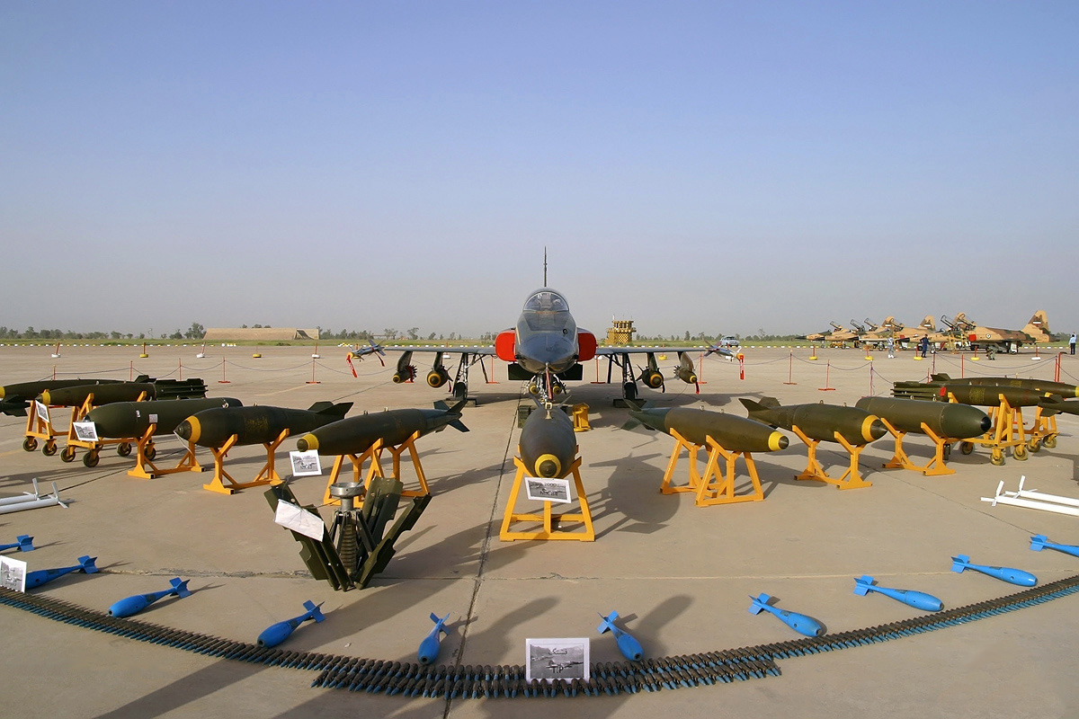 HESA Azarakhsh with full armament displayed in Vahdati Airbase Air Show (Annual Exhibition). Vahdati Airbase is 4th tactical airbase of Islamic Republic of Iran Air Force(IRIAF).